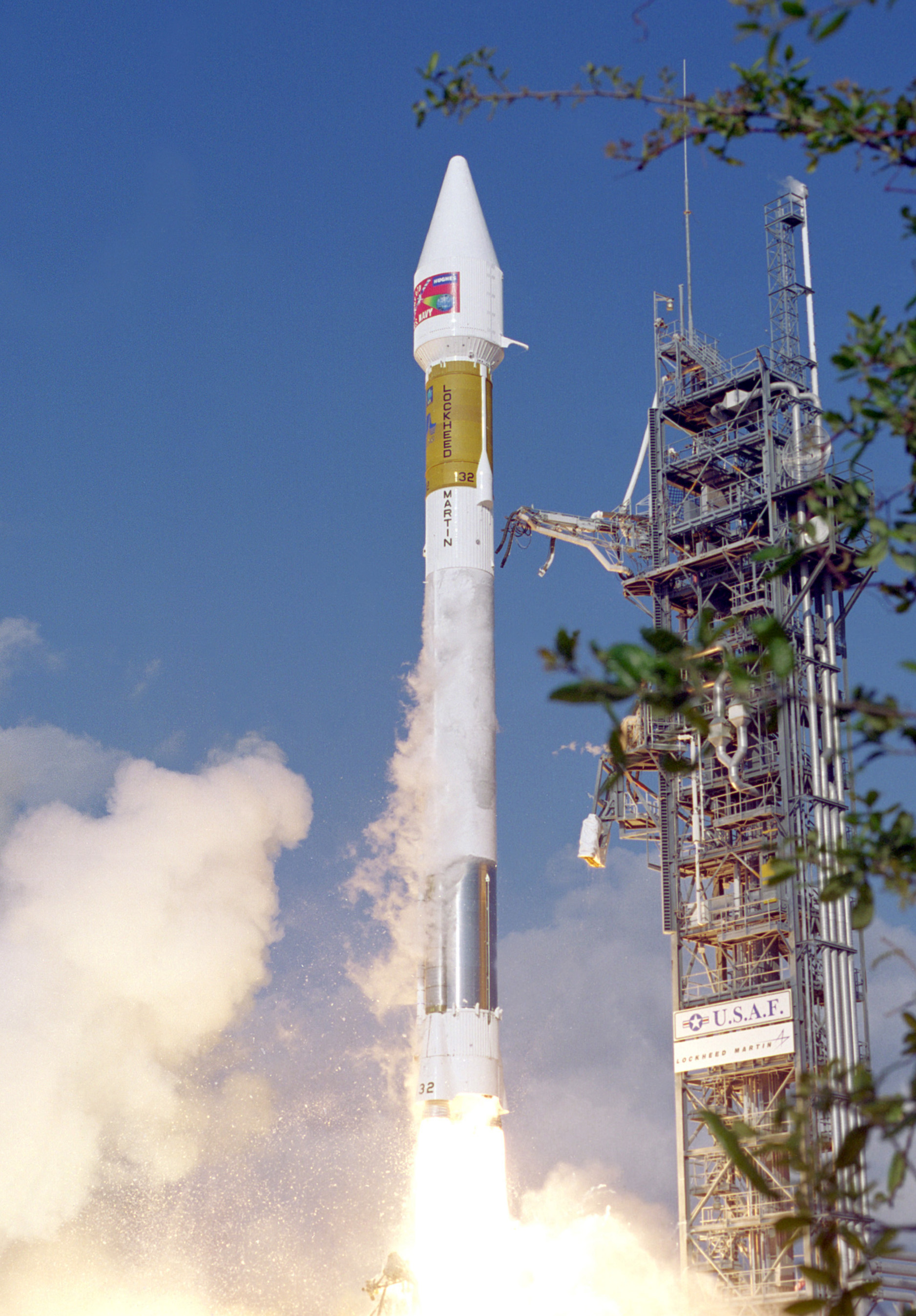 An ultra high frequency (UHF) communications satellite is successfully launched into orbit for the U.S. Navy atop a Lockheed Martin Atlas II A launch vehicle (AC-132) from complex 36A at Cape Canaveral. Launch took place at 4:32 P.M. EST.